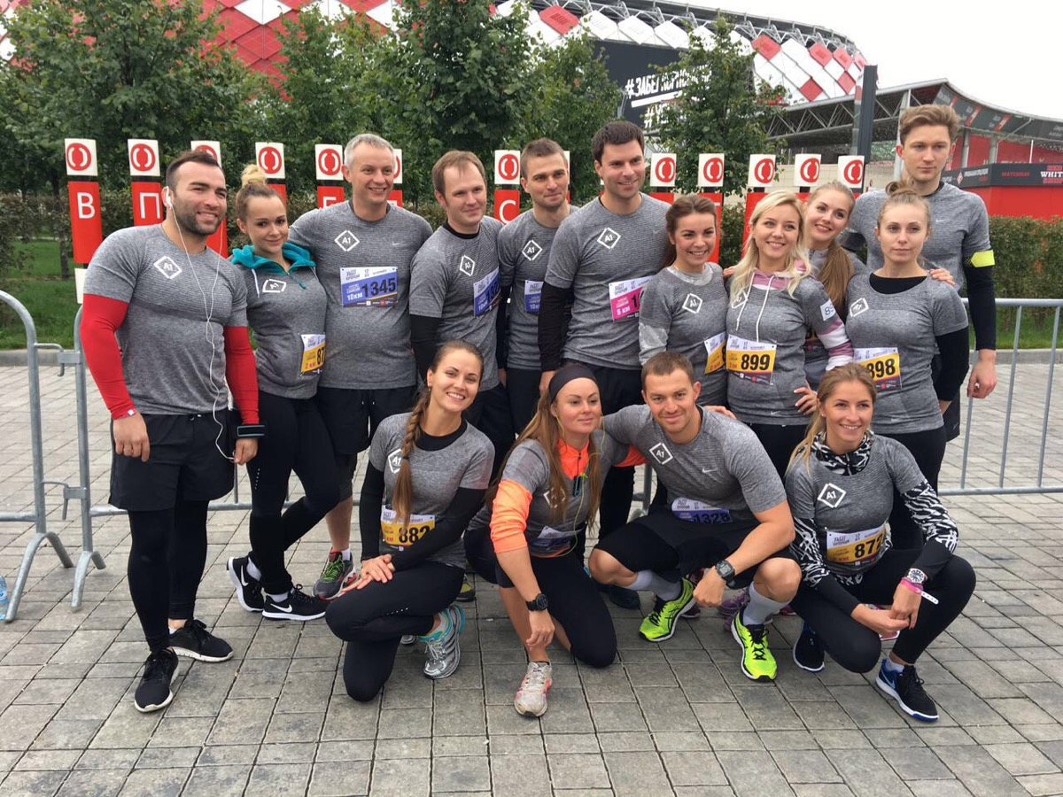 corporations race